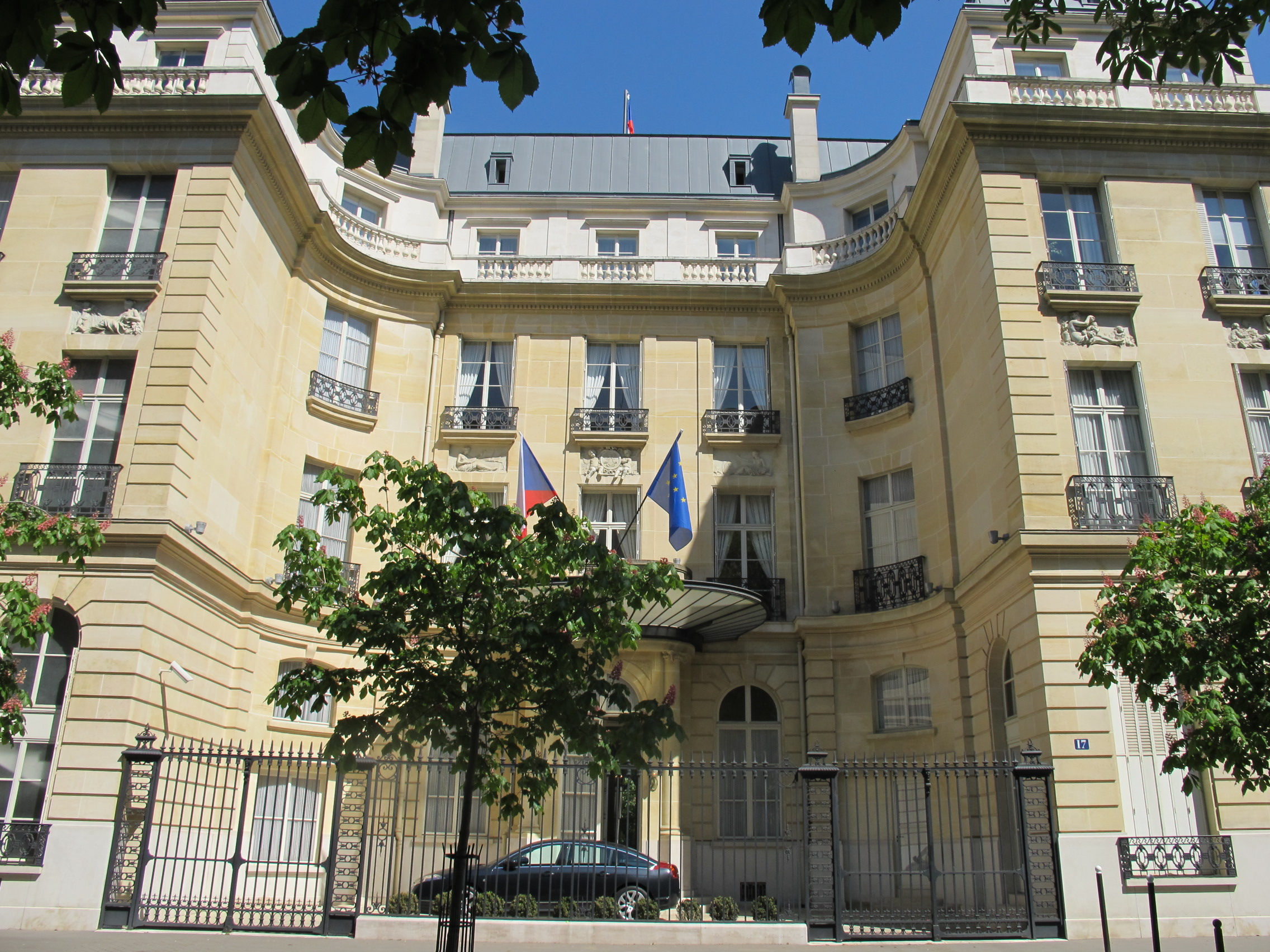 Czech Embassy, Paris